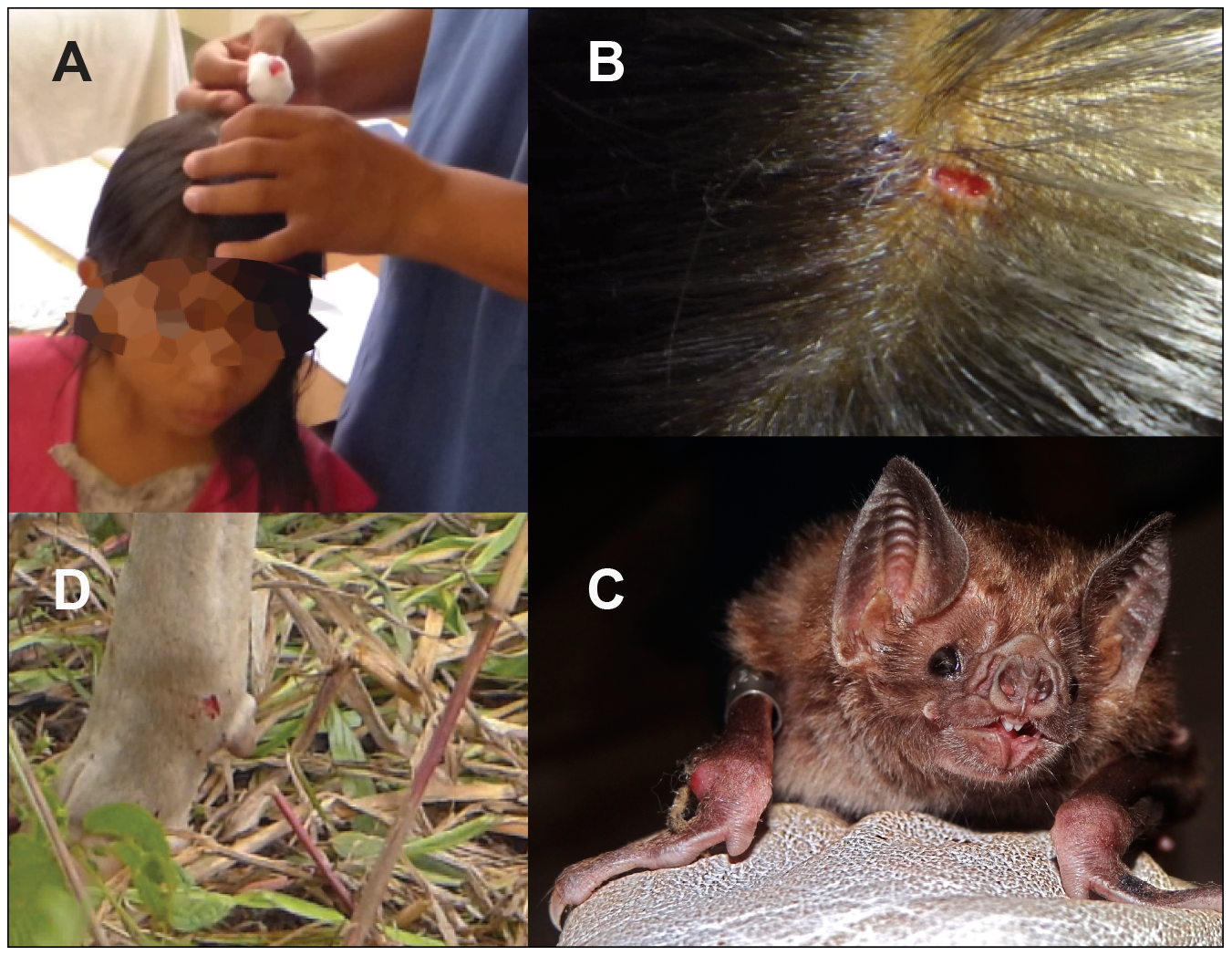 (A) Acute care in a local health outpost of a young girl bitten by a bat while she slept. (B) Close-up of bite on girl's head showing typical concave lesion. (C) The common vampire bat, D. rotundus. The central incisors are used to remove a small patch of skin from prey, and anticoagulants in the saliva prevent clotting while the bat laps the blood meal. This feeding behavior allows for transmission of rabies to prey via saliva. (D) Typical bite on the ankle of a cow.